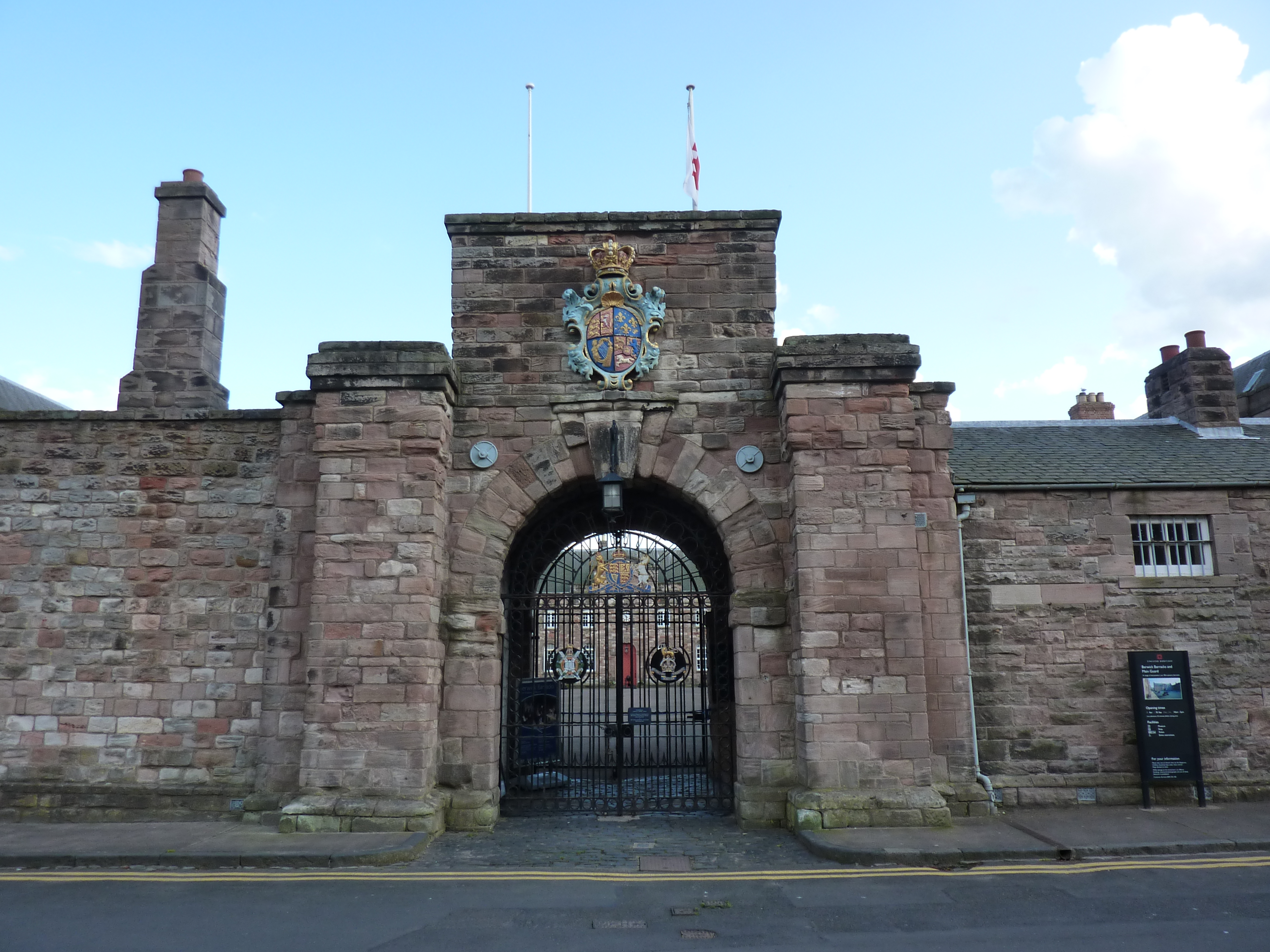 Now operated by English Heritage but closed by the time I got there. Final day of the Southern Upland Way blogged about at .uk/southernuplandway/day18